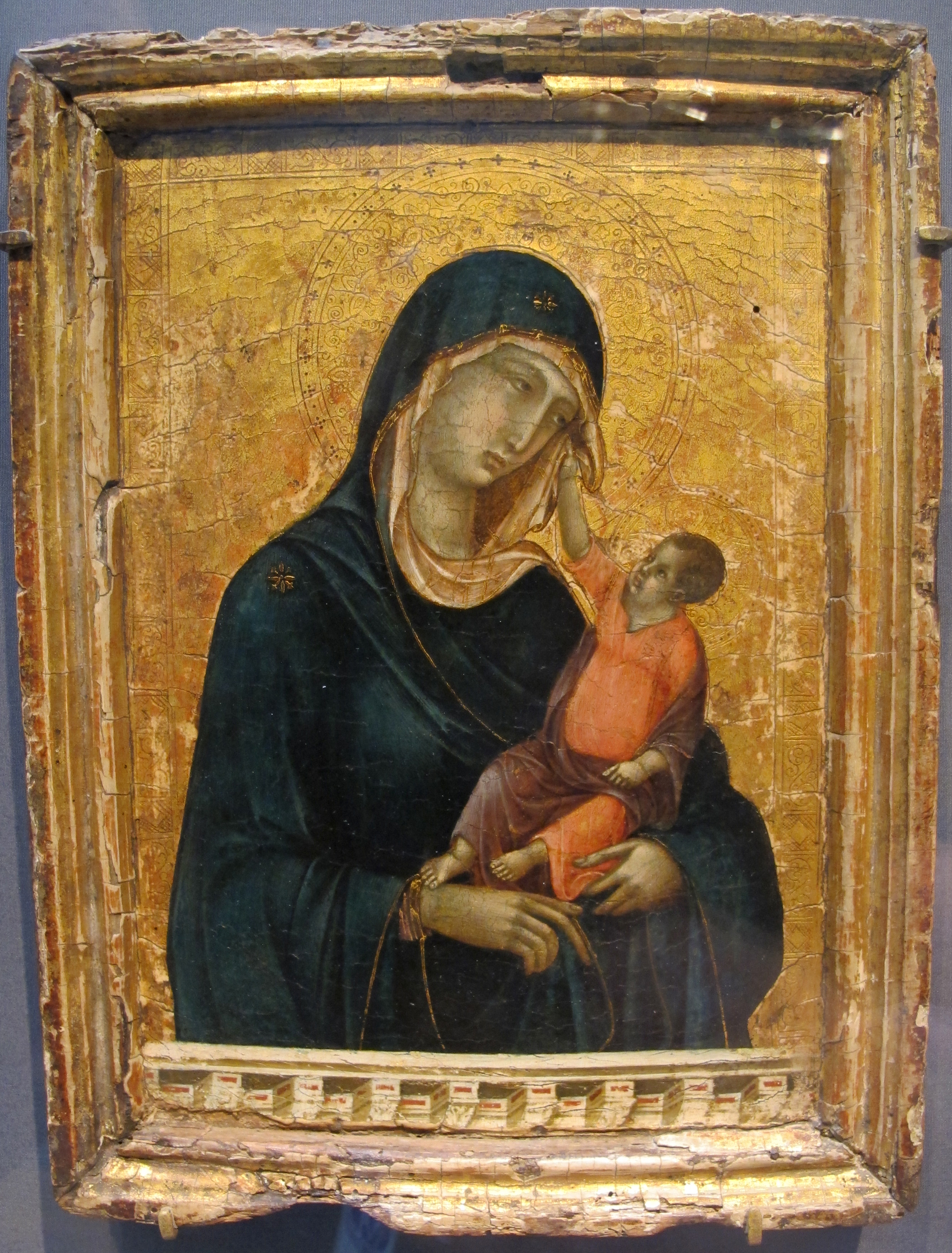 Italian Gothic paintings in the Metropolitan Museum of Art